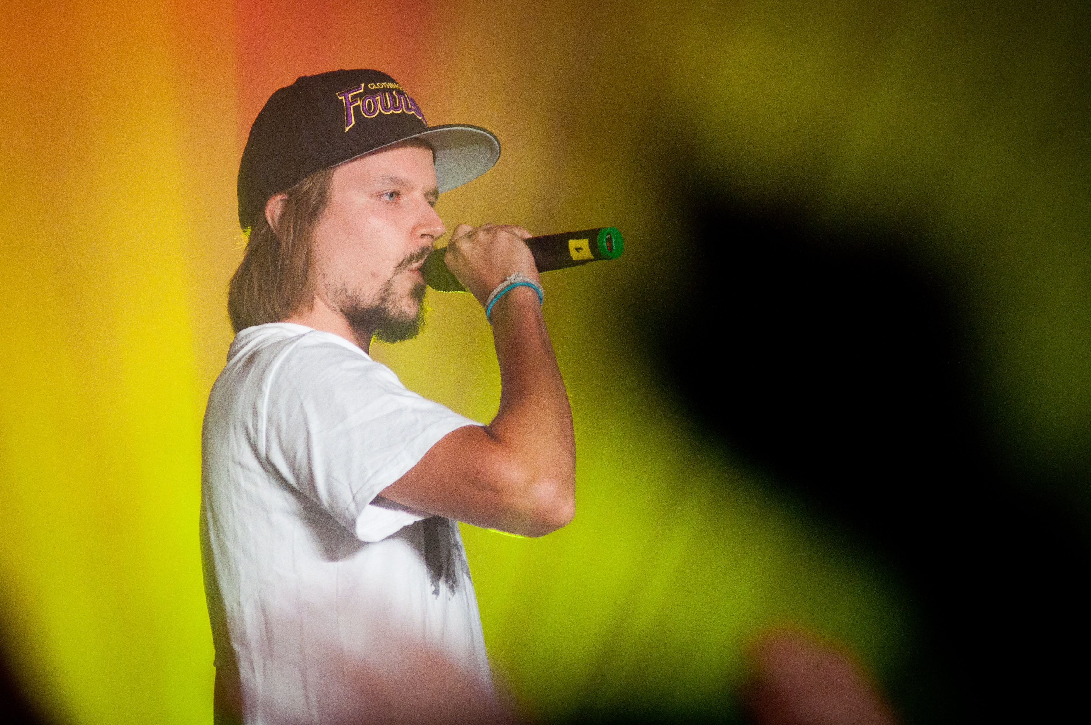 Finnish reggae artist Jukka Poika performing in Lappeenranta, Finland.